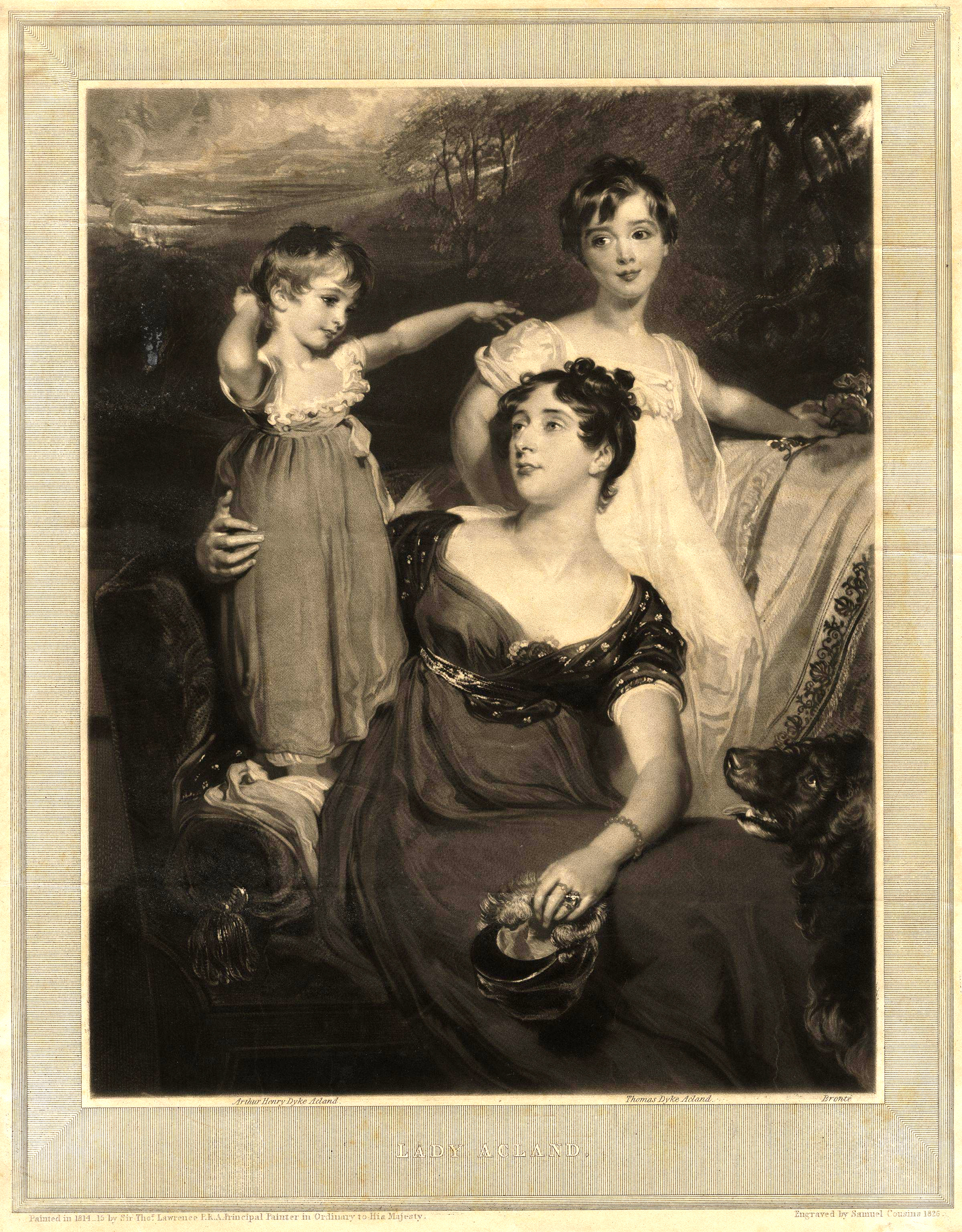 Lady Acland (Arthur Henry Dyke Acland; Lydia Elizabeth (Hoare), Lady Acland; Sir Thomas Dyke Acland, 11th Bt), by Samuel Cousins (died 1887), given to the National Portrait Gallery, London in 1957. All images in this batch have been confirmed as author died before 1939 according to the official death date listed by the NPG.